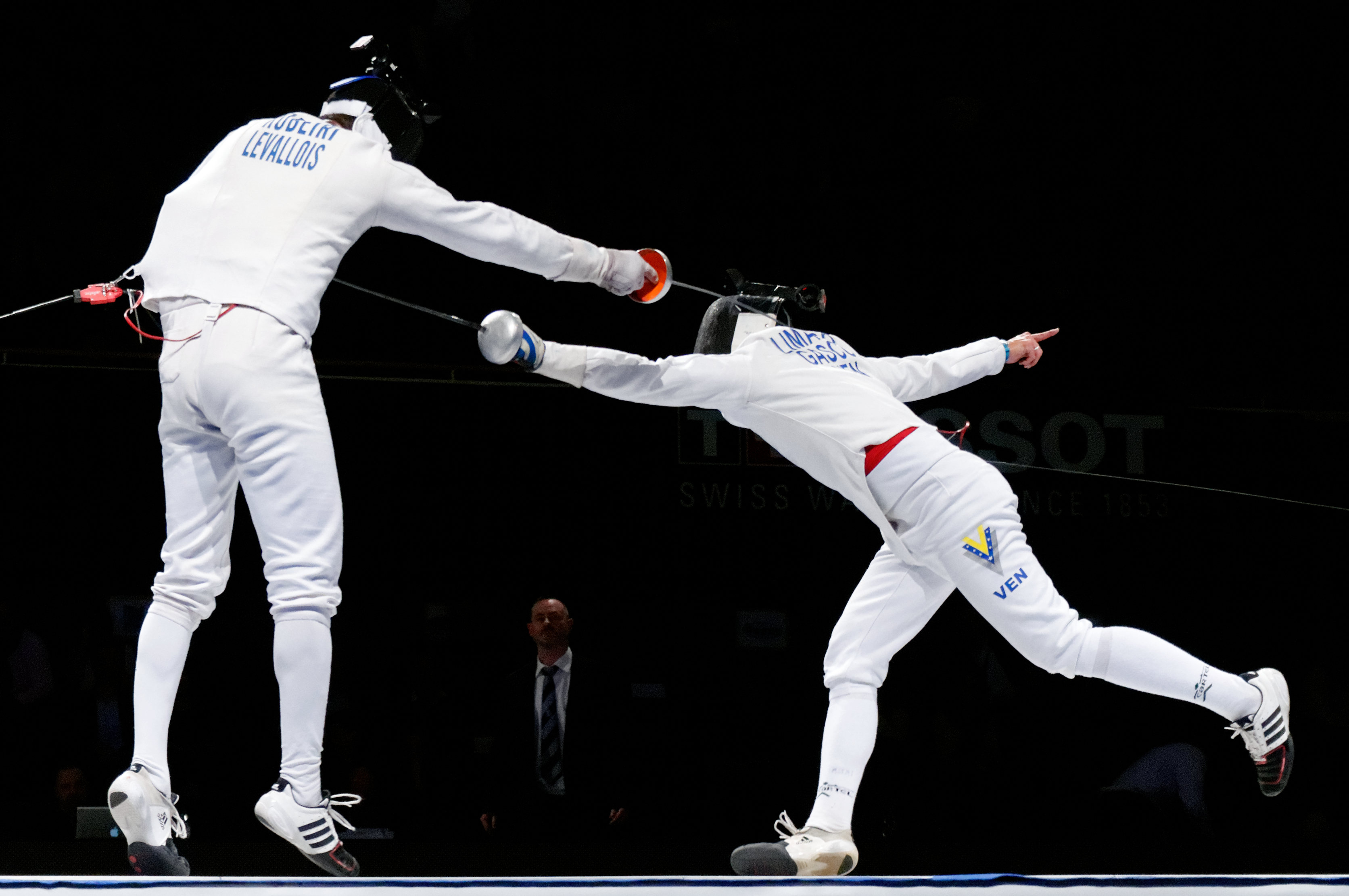 Quarter-finals of the Masters à l'épée 2012: Ulrich Robeiri (left) v Rubén Limardo (right).